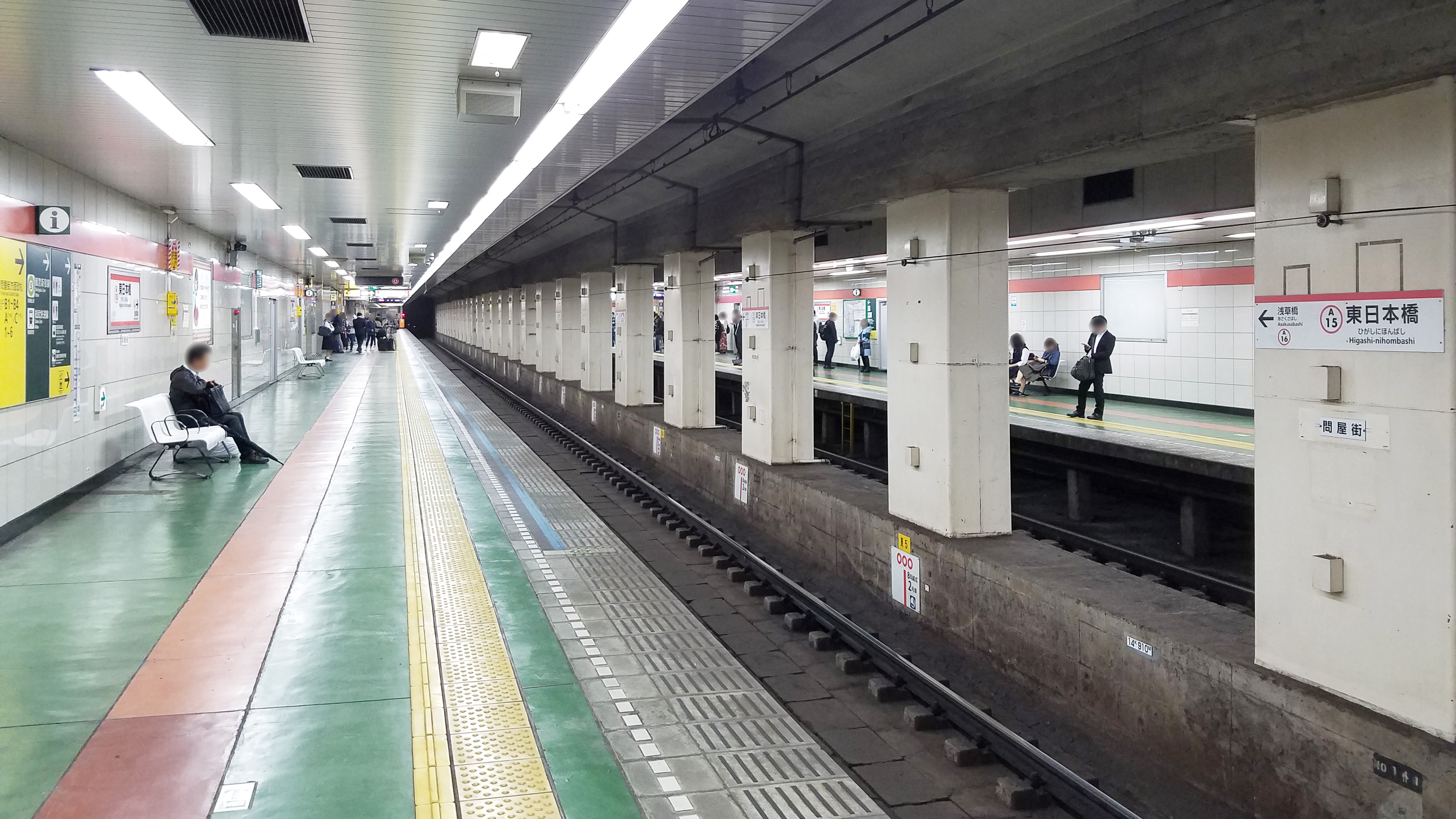 The platforms at Higashi-nihombashi Station on the Toei Asakusa Line in Chuo city, Tokyo, Japan